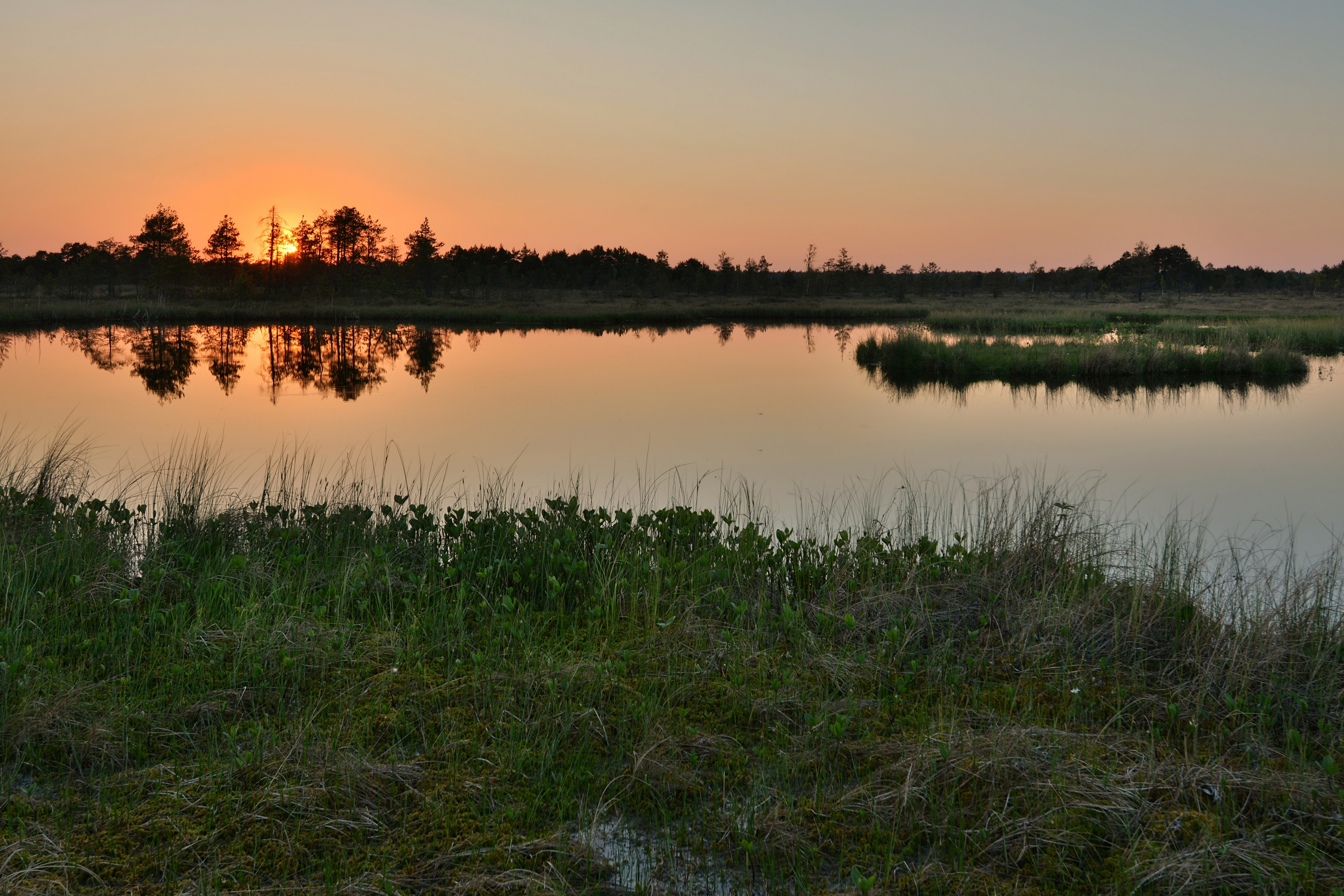 Mõrdama bog